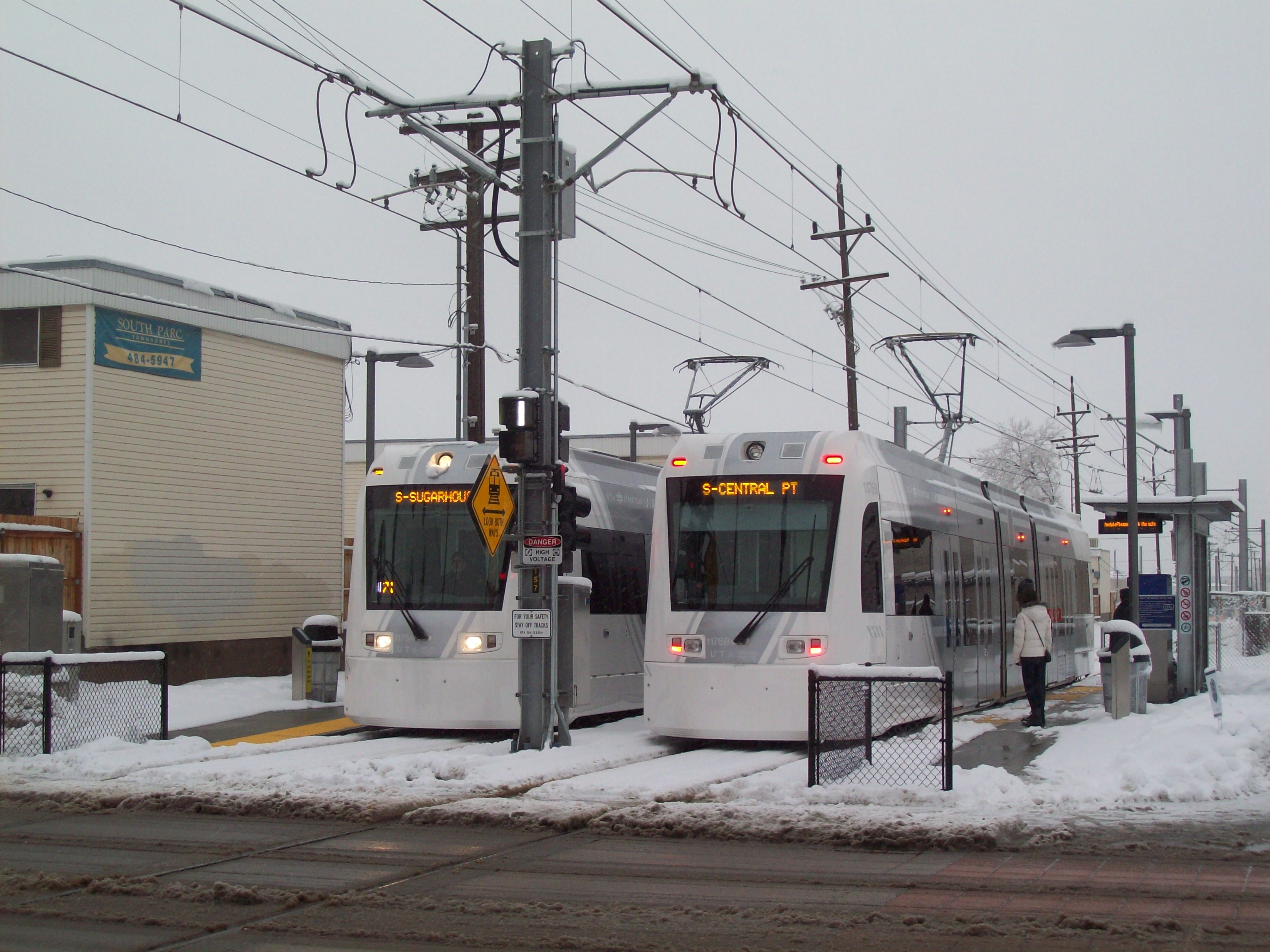 Two UTA S Line streetcars at the 500 East stop. Weather conditions were not optimal, feel free to replace with better one if available